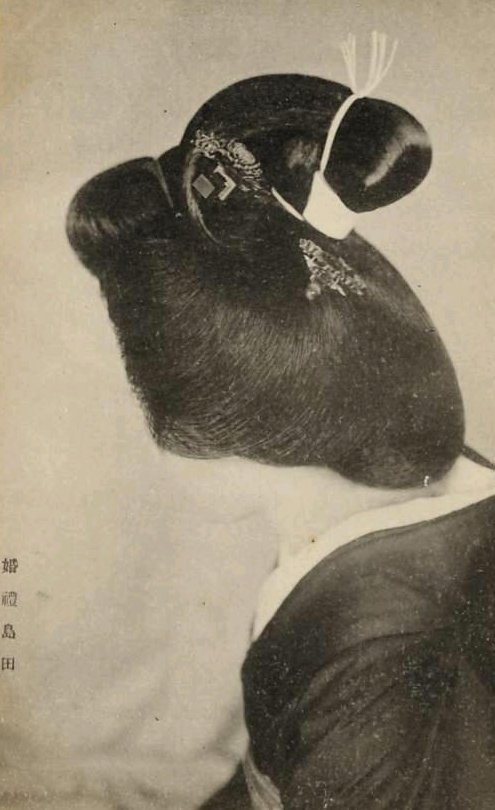 a traditional Japanese wedding hairstyle konrei shimada (婚禮島田)